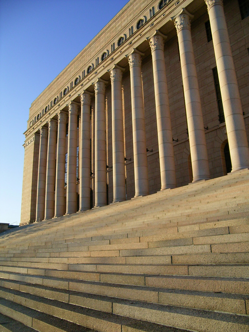 Finnish Parliament building